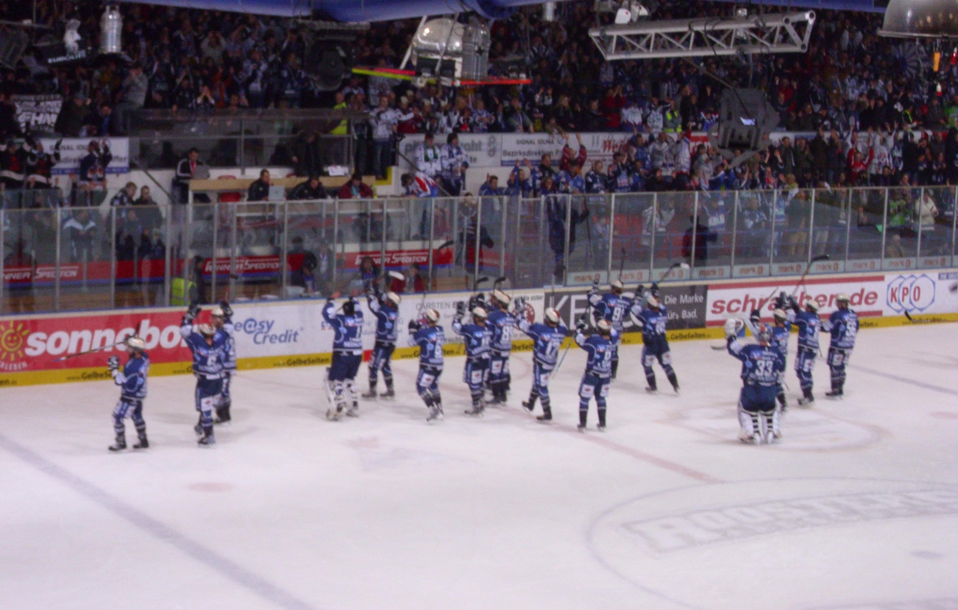 Iserlohn Roosters celebrate a win at home against the Adler Mannheim